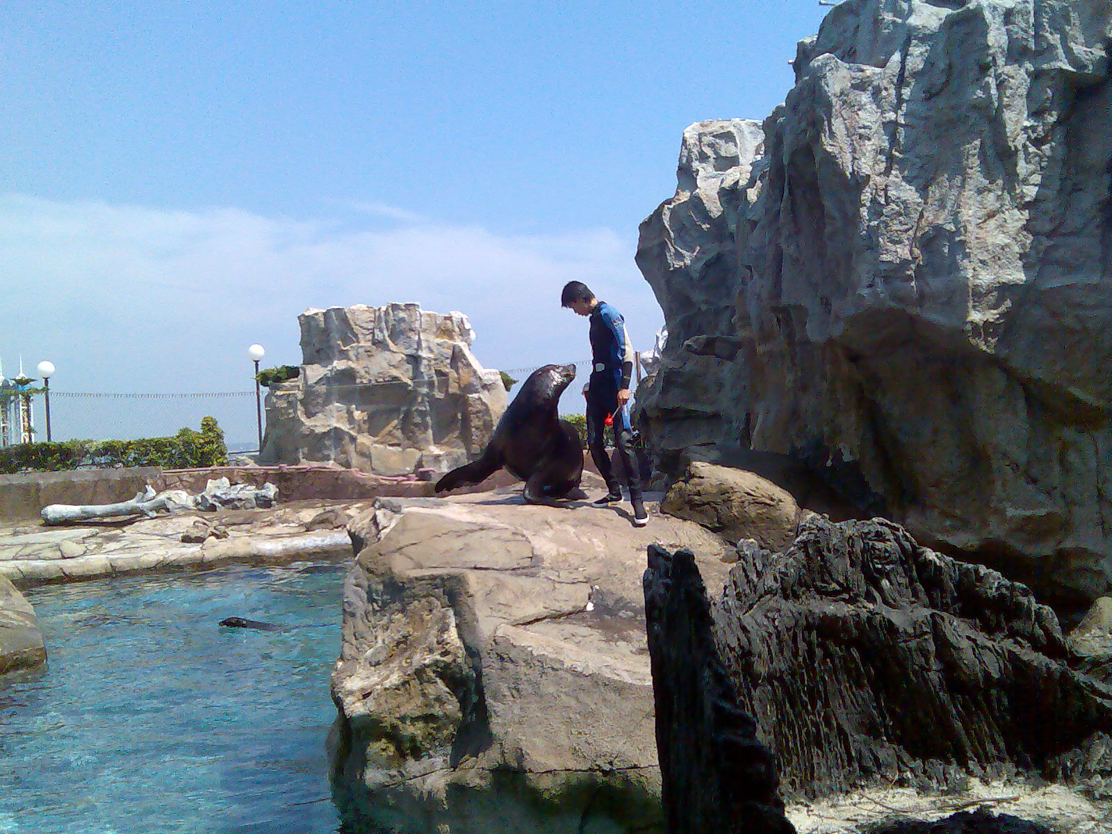 Pacific Pier, Ocean Park, Hong Kong